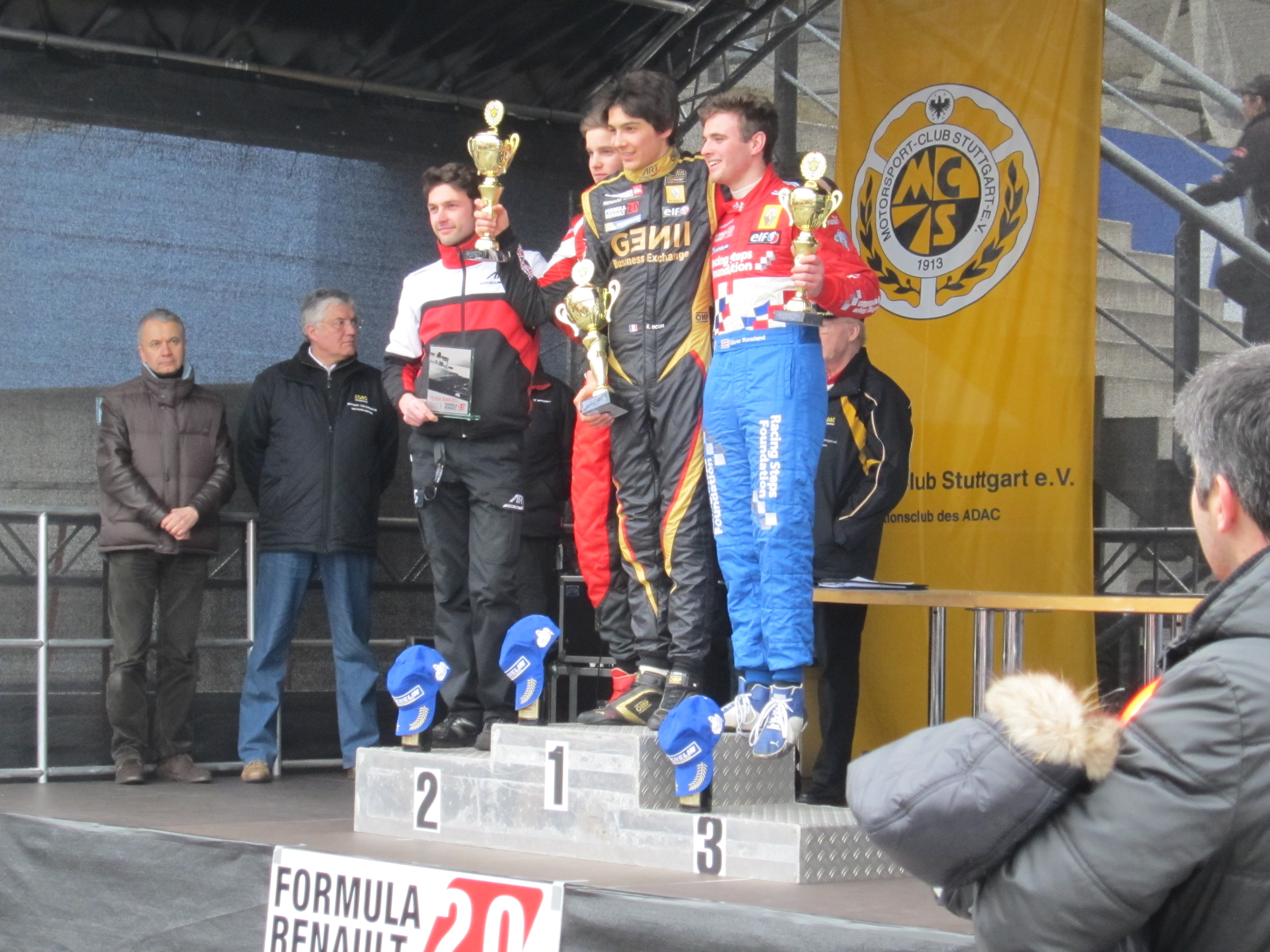 (f. l. t. r.) Mikko Pakari, Esteban Ocon and Oliver Rowland: the photo was taken during 2013's MCS Hockenheim-Auftakt race weekend